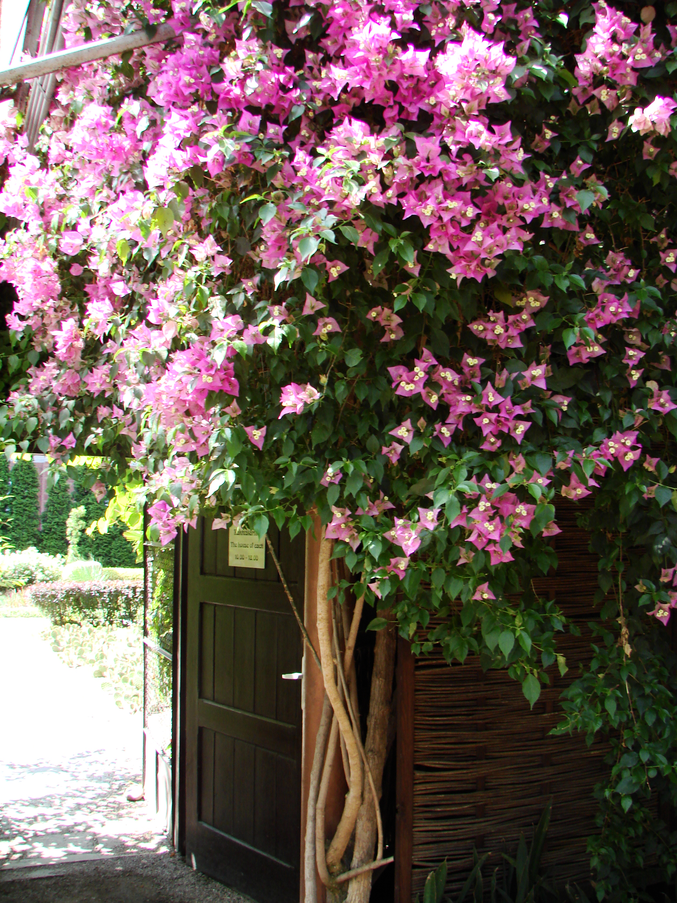 Picture taken in the university botanical garden of Wrocław (Poland): Bougainvillea glabra Choisy